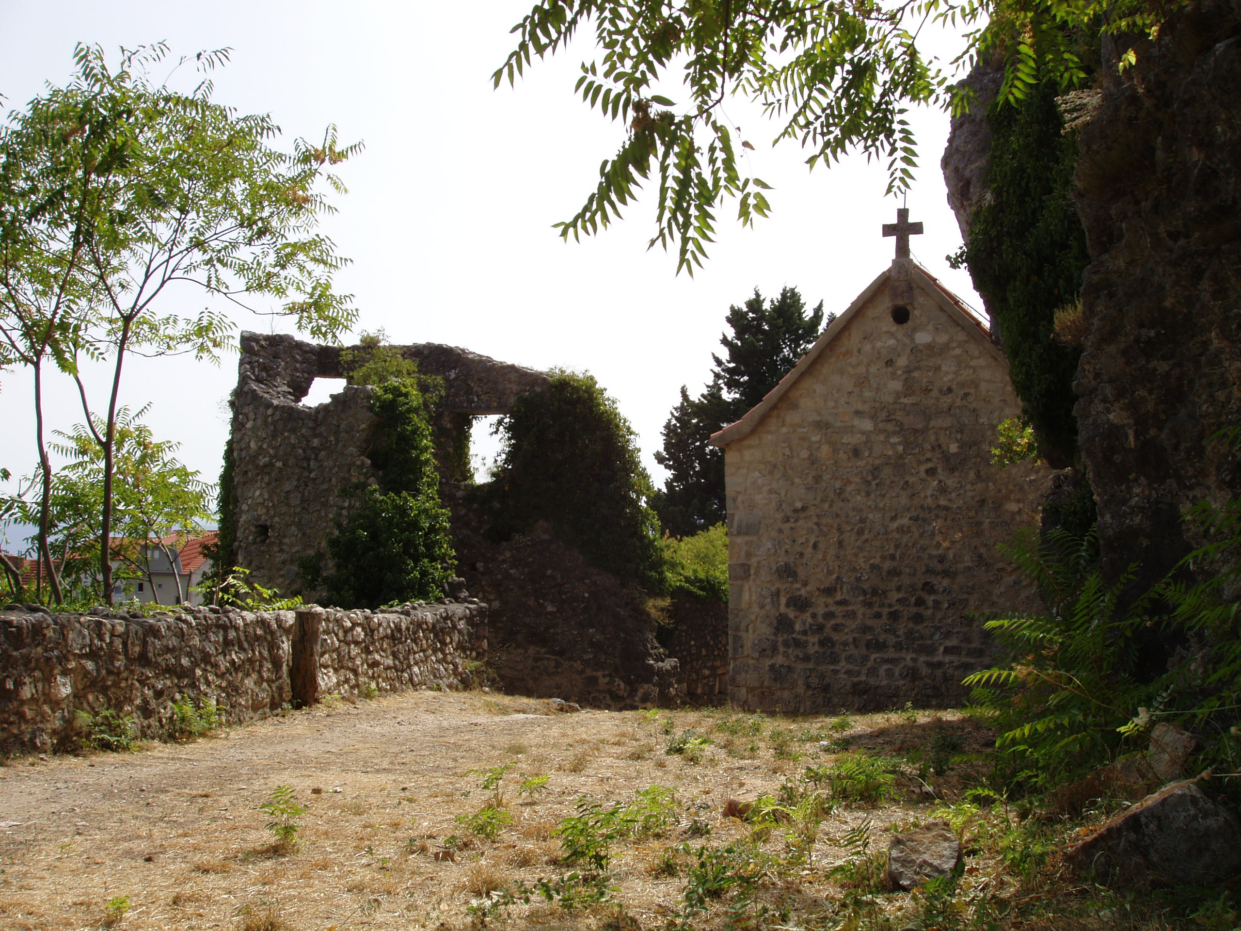 Church Madonna of the Angels, Imotski, Croatia